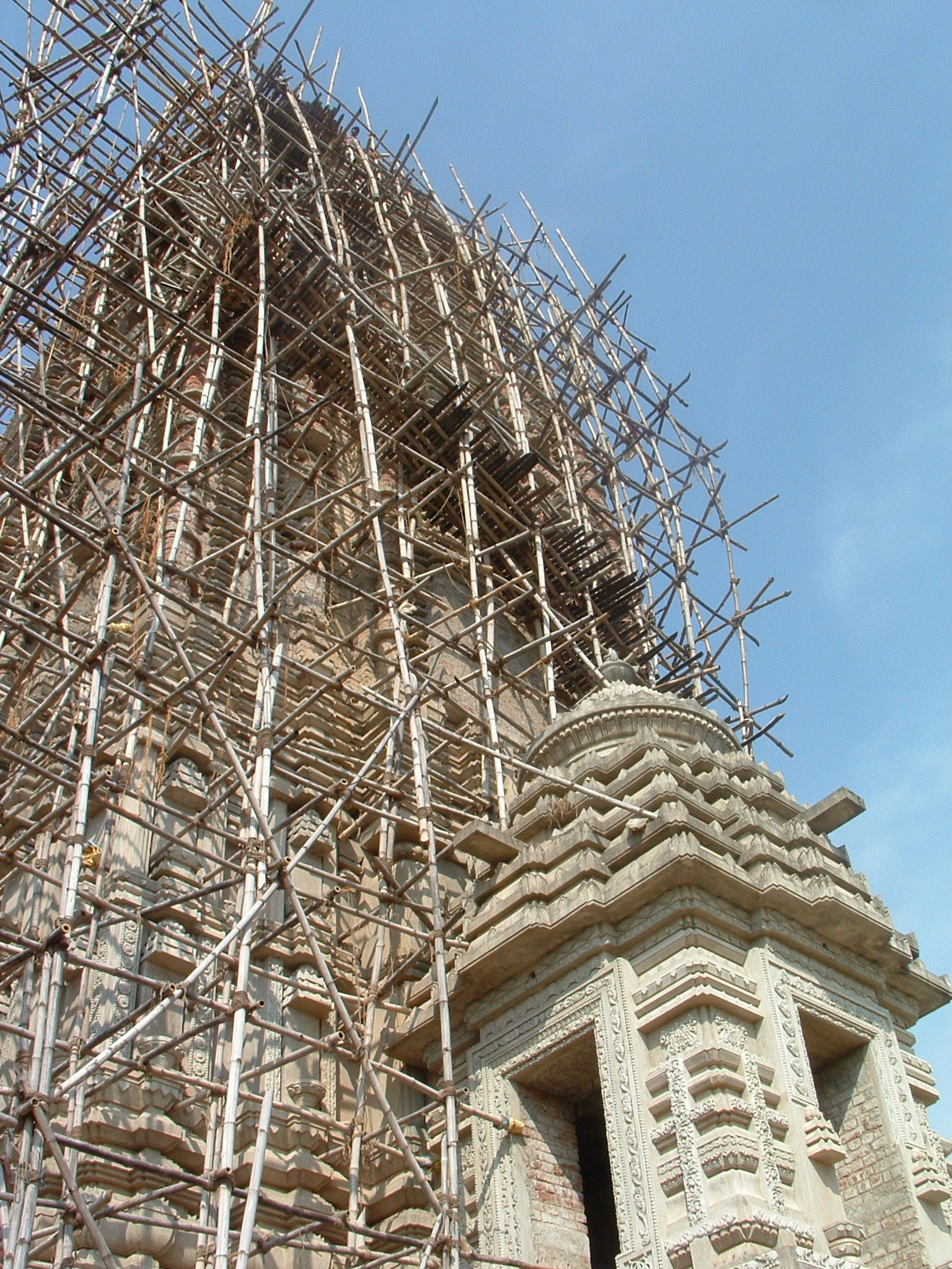 Restoration work in progress on the Jagannathpur temple, Ranchi.